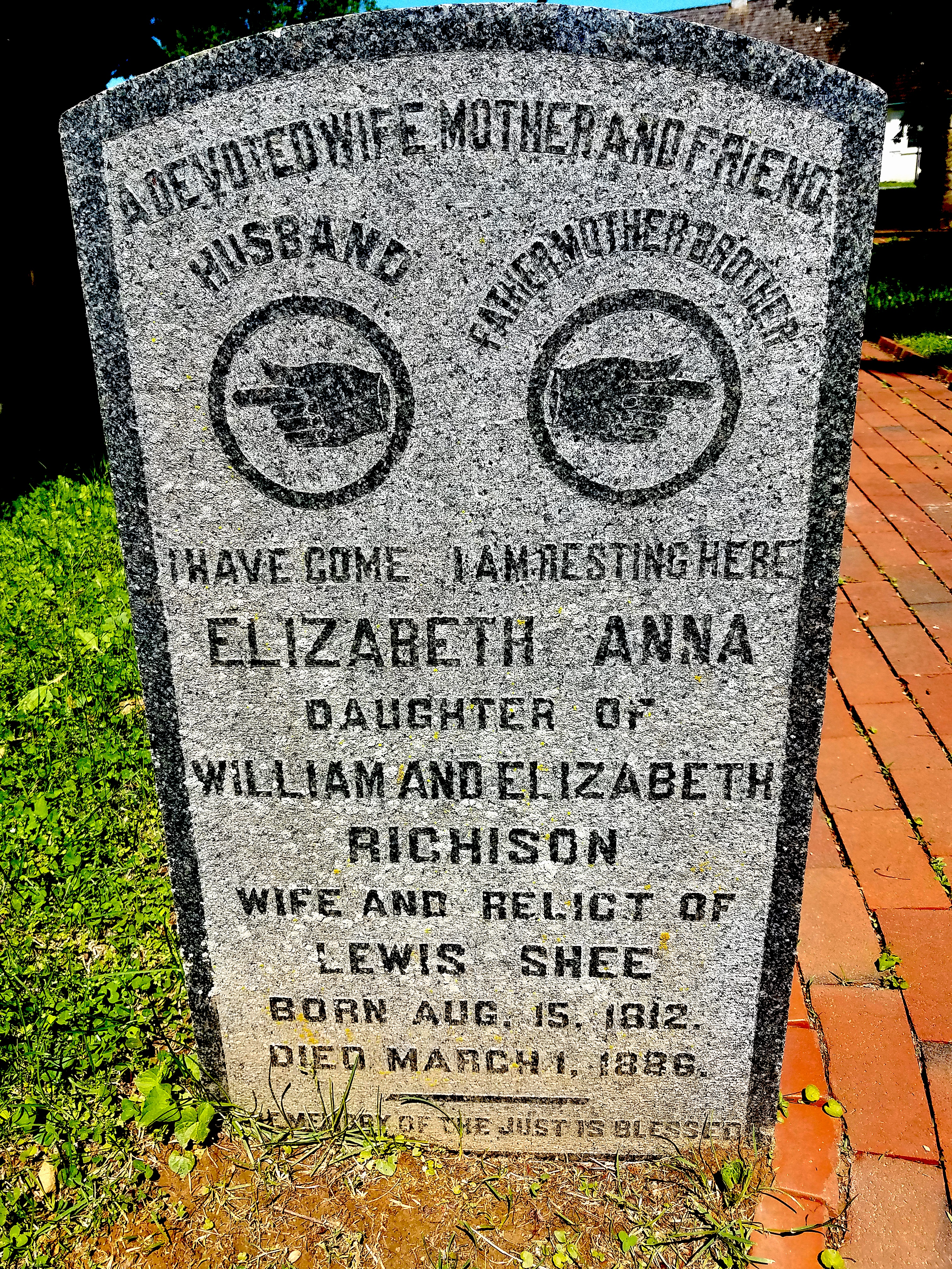 Gravestone illustrating use of the word "relict" meaning "widow"; located in the churchyard of St. Peter's Episcopal Church in Malvern, Pennsylvania